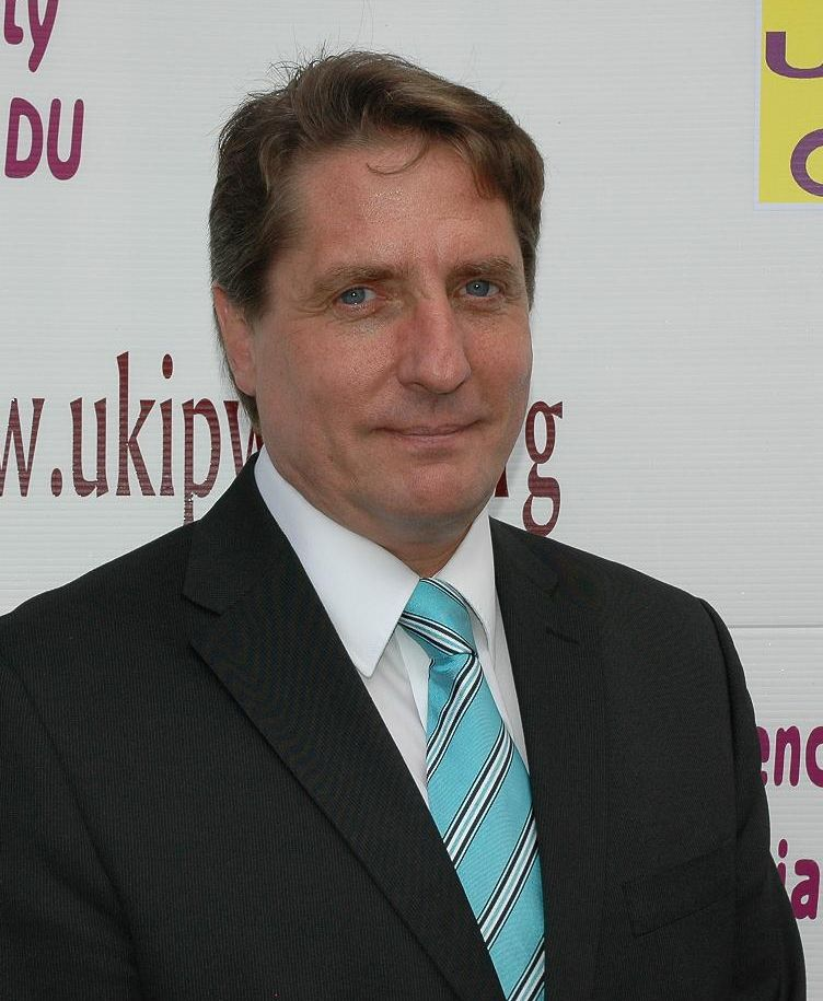 John Bufton, UKIP MEP for Wales, taken on the 27th July 2009, in Merthyr Tydfil.